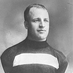 Ottawa Senators Eddie Gerard